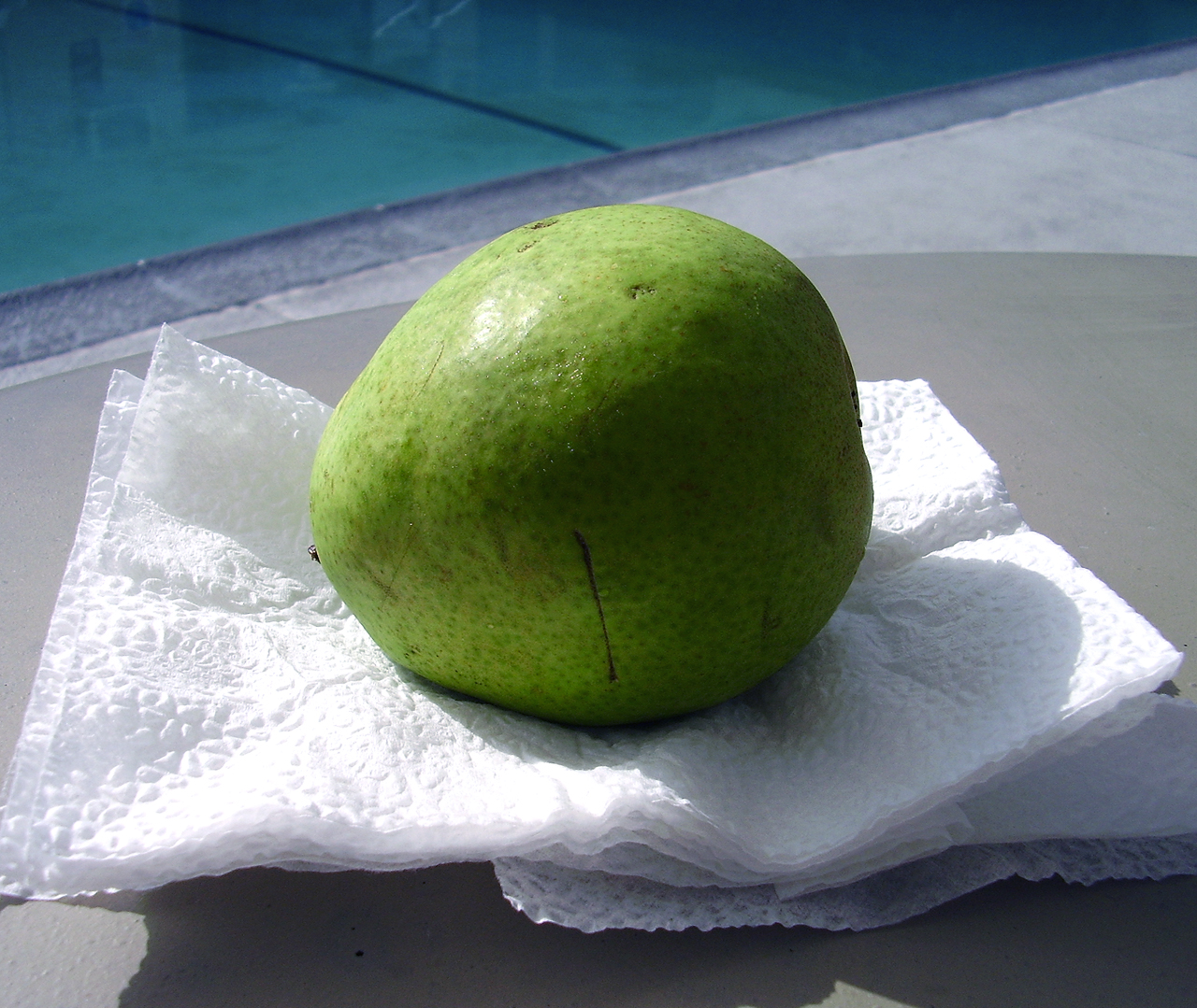 A D'Anjou pear sitting on a napkin beside the pool. Shot by me just this morning with my Olympus FE-115. See license for distribution permissions.